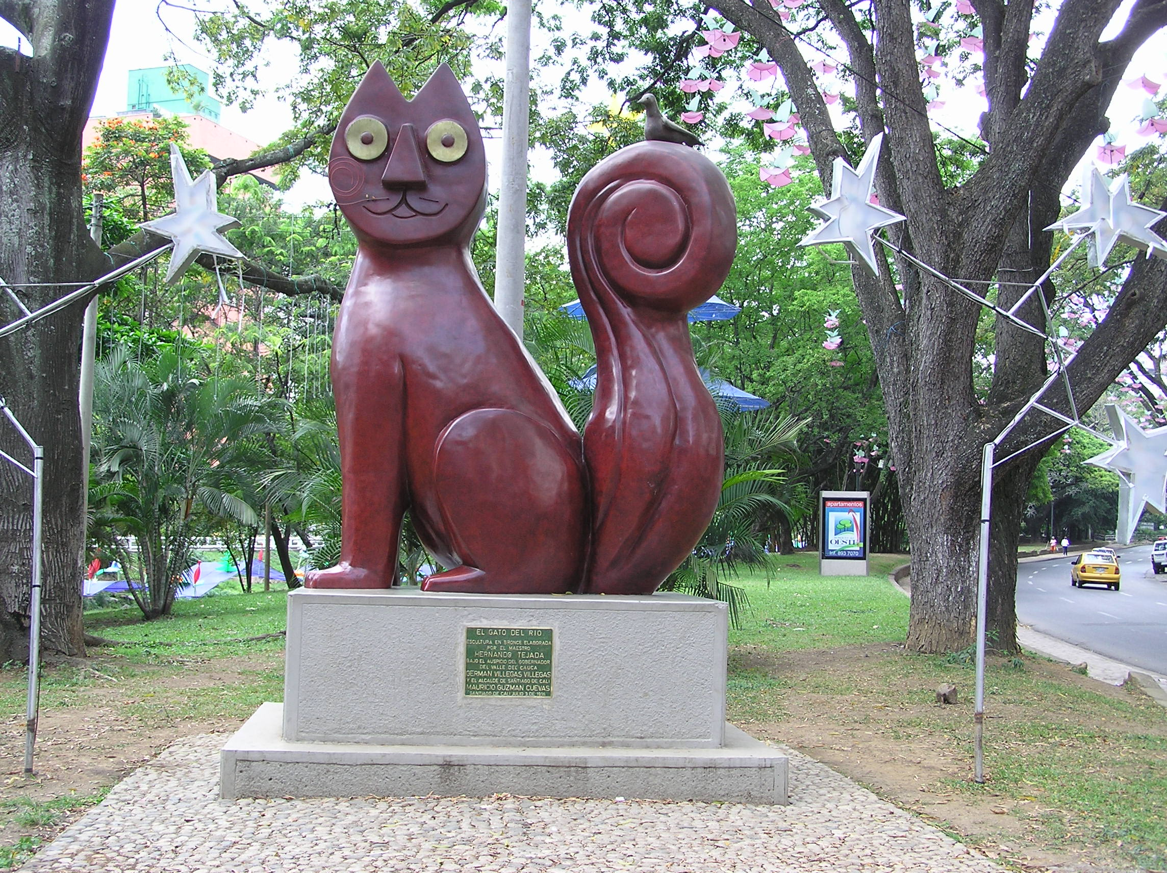 "El Gato del Rio" (The cat of the River) By Tejada Santiago de Cali - Colombia